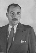 Enazo Ardigó-periodista argentino